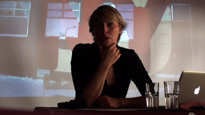 Gunnhildur Hauksdottir giving a lecture at The Anti Festival in Kuomio, Finnland in 2010